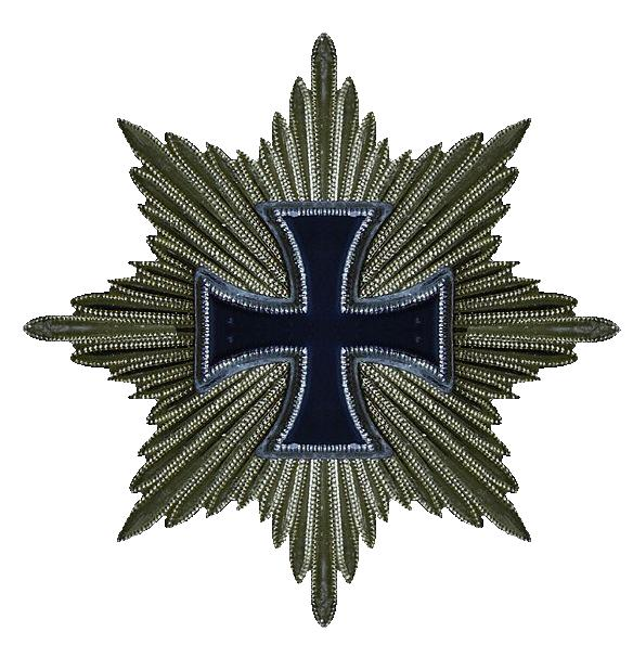 Star of the Iron Cross 1813